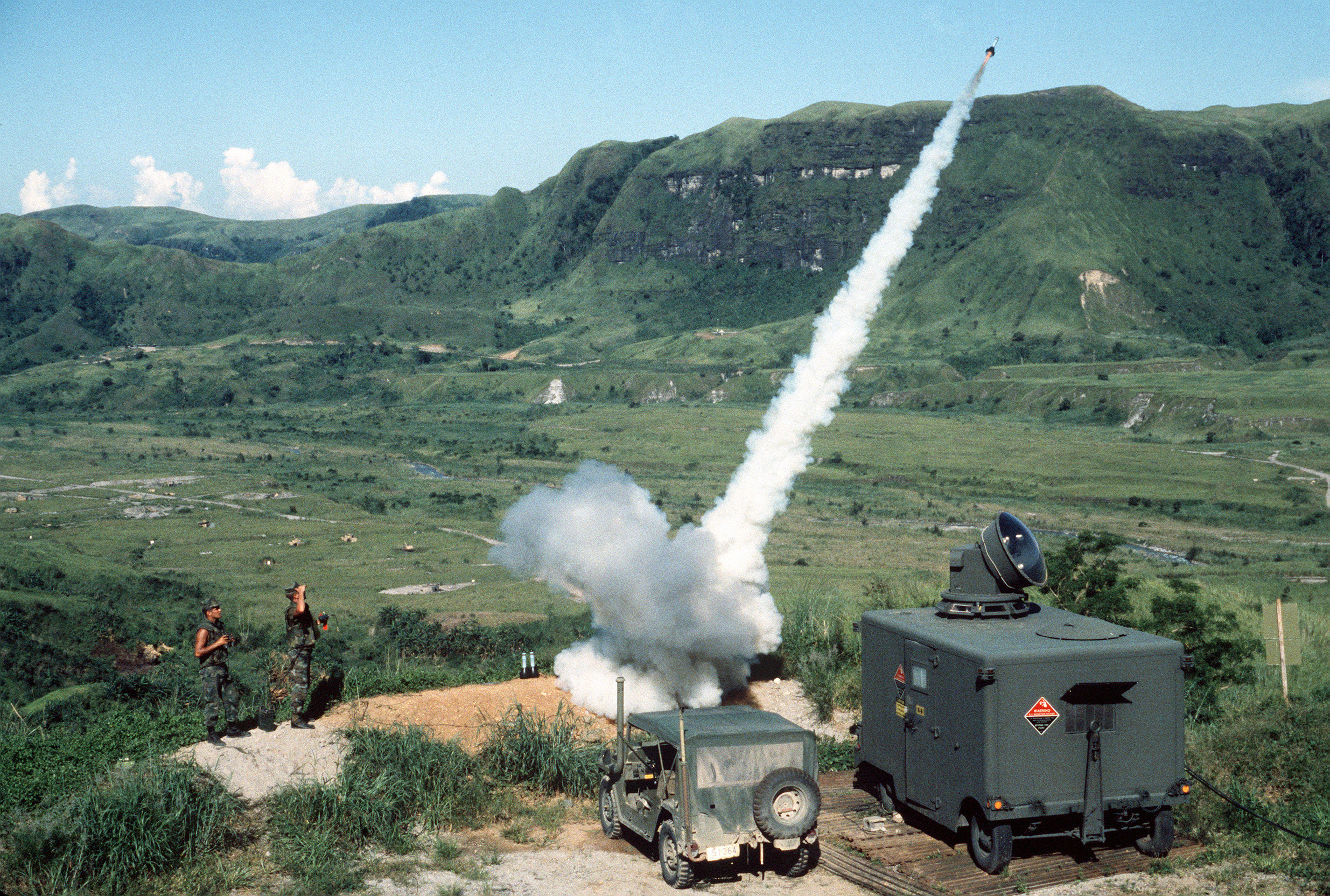 U.S. Marines launch a GTR-18A Smokey Sam simulated anti-aircraft missile at an aircraft approaching the Crow Valley Electronic Warfare Tactical Range, Luzon, Philippines, during exercise "Cope Thunder '84-7" on 10 September 1984. In the foreground is a portable radar unit and an M151 light vehicle.